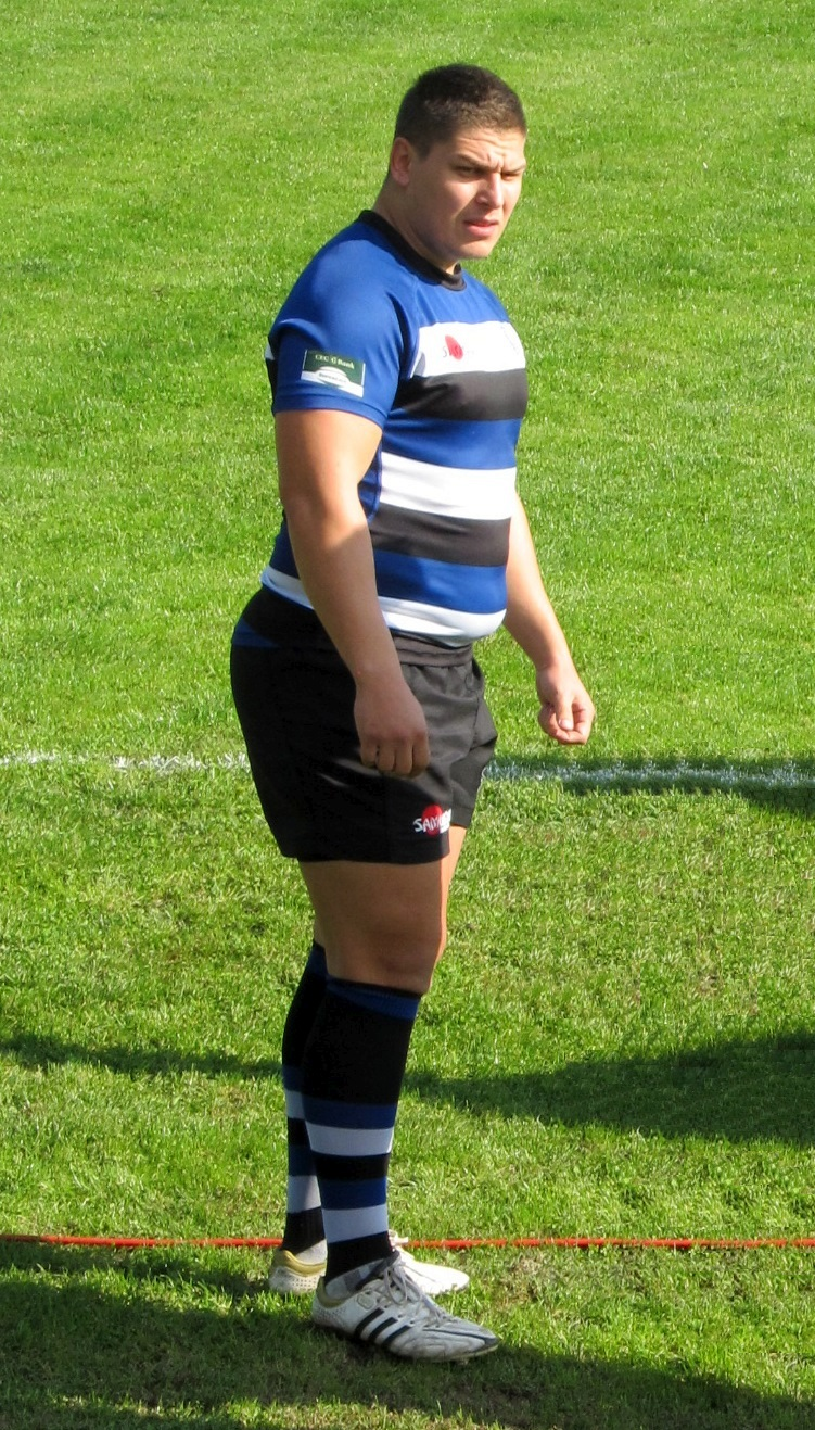 Romanian Rugby Union player Cătălin Beca during a SuperLiga match between his team, CSM București, and rivals CSM Baia Mare in October 2015.